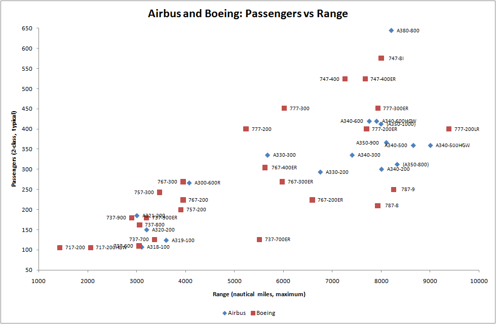 A graph comparing the number of passengers and the range of Airbus and Boeing jet aircraft. This graph shows all Airbus and Boeing aircraft that are in production or have come out of production since 2000, and several future aircraft (figures are tentative and are shown in brackets). Passengers is based on a typical 2-class configuration, and range is based on maximum with standard options in nautical miles